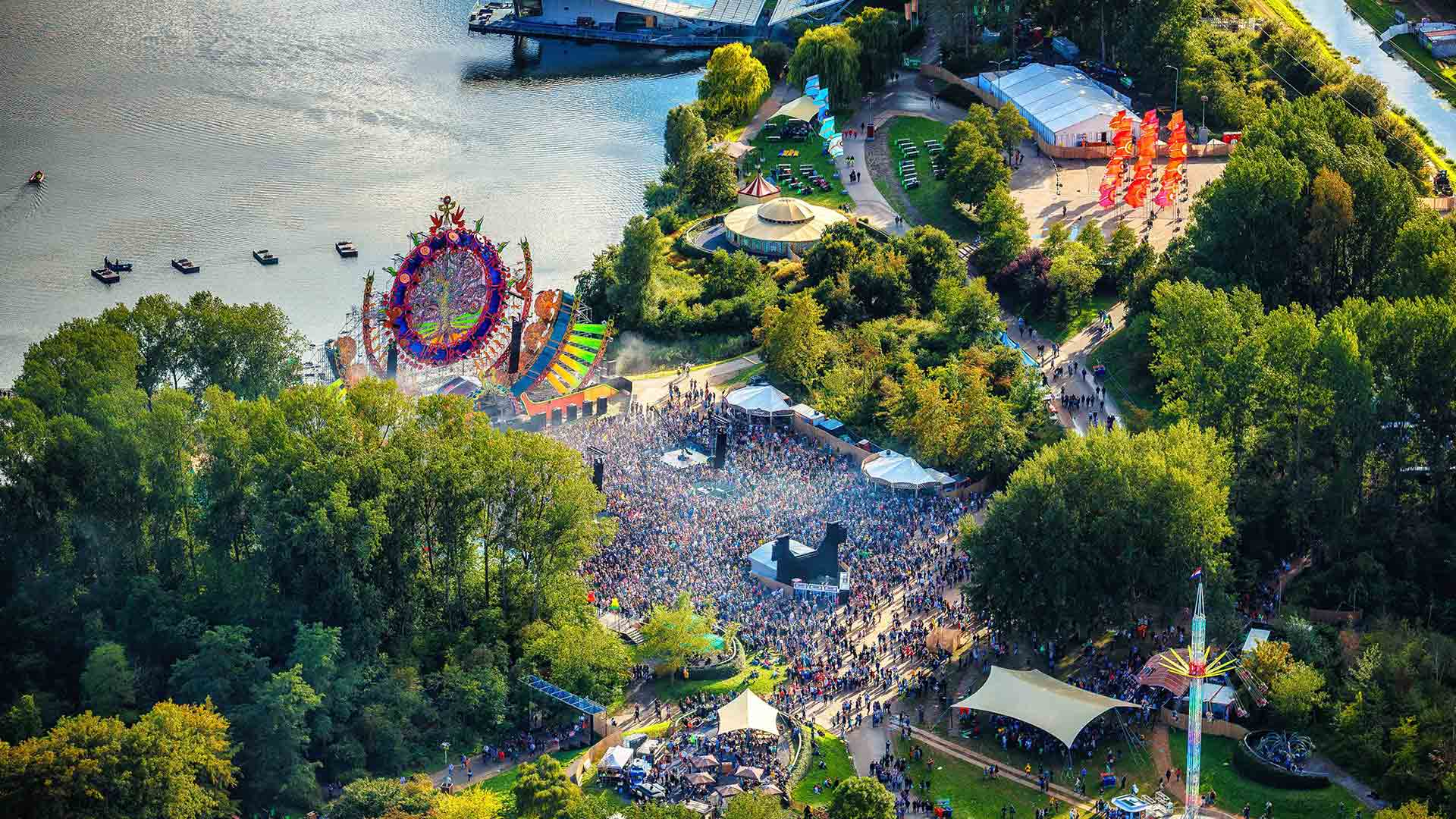 Aerial picture of Mysteryland 2018, made by Niels de Vries